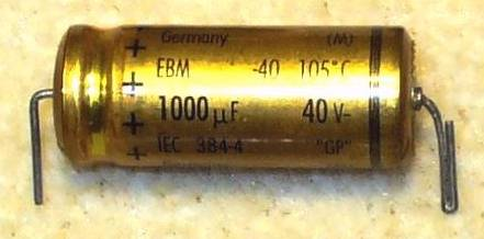 Electrolytic capacitor with markings for polarity